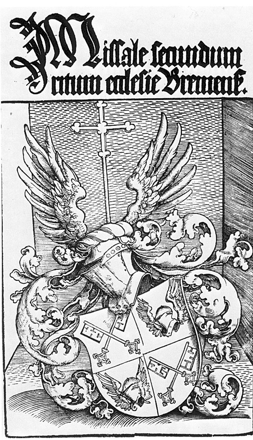 Bremen Cathedral Museum: Frontispiece (woodcut) of the "Missale secundum ritum Bremense", Strasburg: Renatus Beck, 1511. The Missal is the oldest book in the holdings of the former Cathedral Library (now Bremen State and University Library). The Frontispiece shows the official coat of arms of the Bremin Prince-Archbishop Johann Rode von Wale.